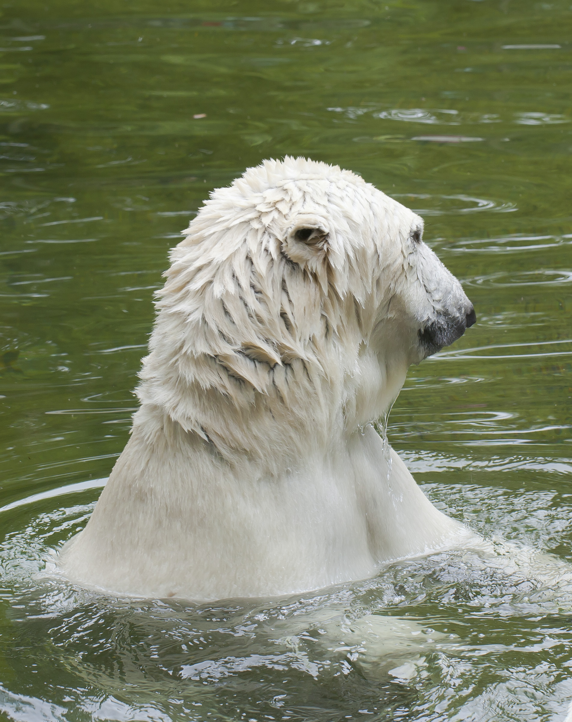 Polar bear (Ursus maritimus), Tierpark Hellabrunn, Munich, Germany